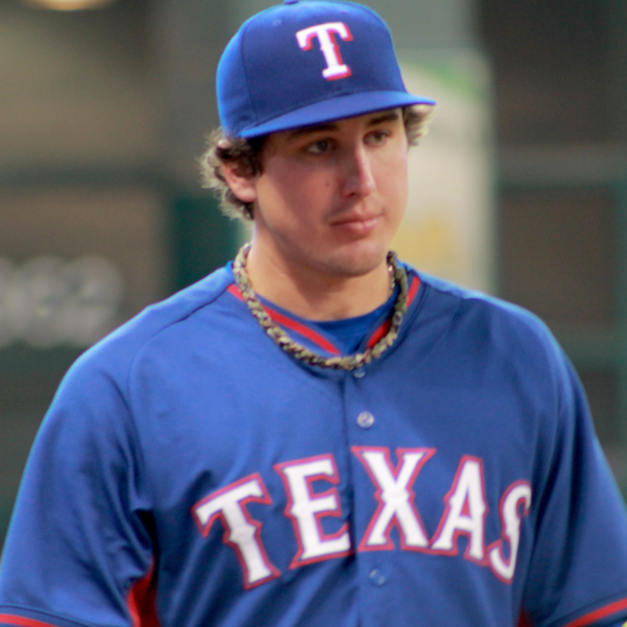 Professional baseball pitcher Derek Holland at Minute Maid Park in August 2014.